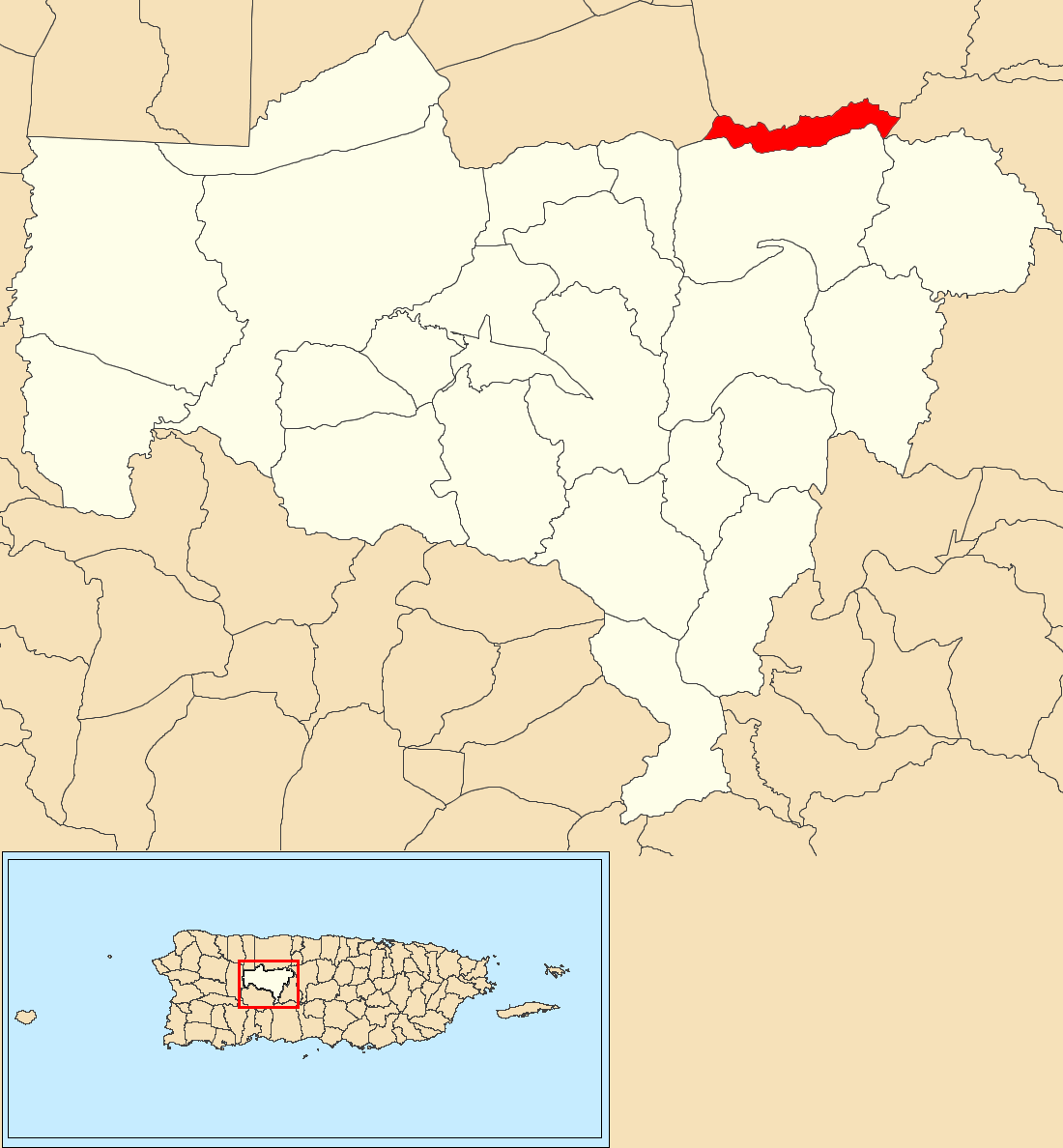 Limón, Utuado, Puerto Rico locator map